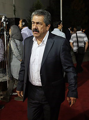 Jahangir Kosari at 16th Iran's National Day of Cinema.